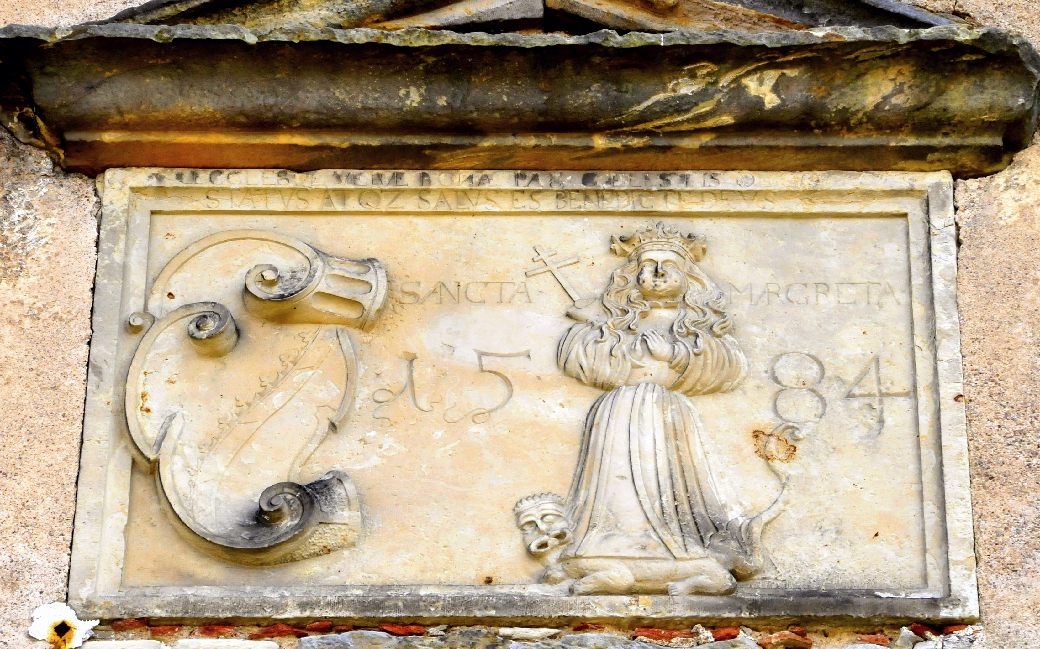 Eschenbergen, church, relief stone with year of church-building